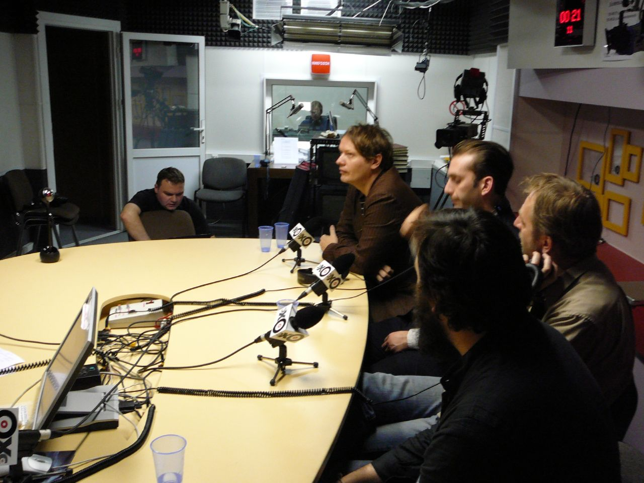 New television studio of Echo of Moscow and RTVi.